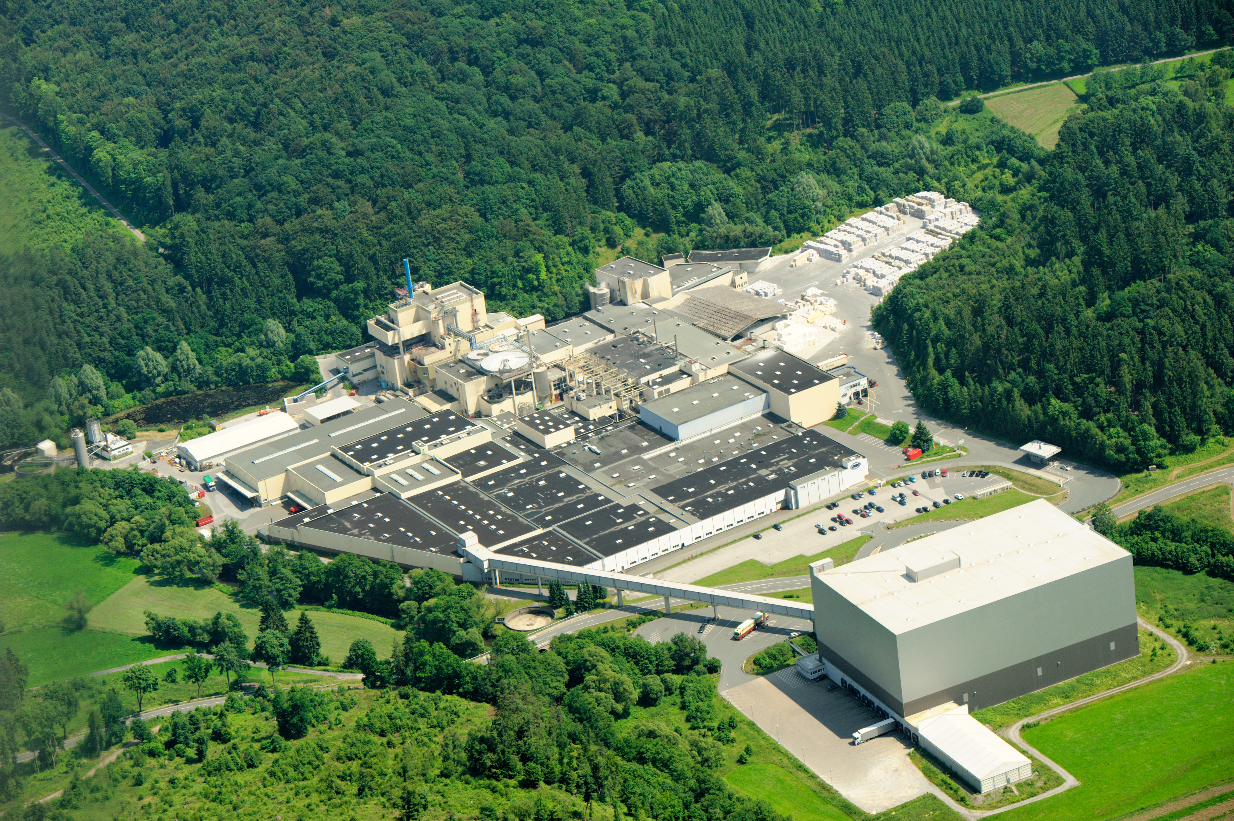 Fotoflug Sauerland-Ost, WEPA Papierfabrik, Giershagen The making of this document was supported by the Community-Budget of Wikimedia Germany.